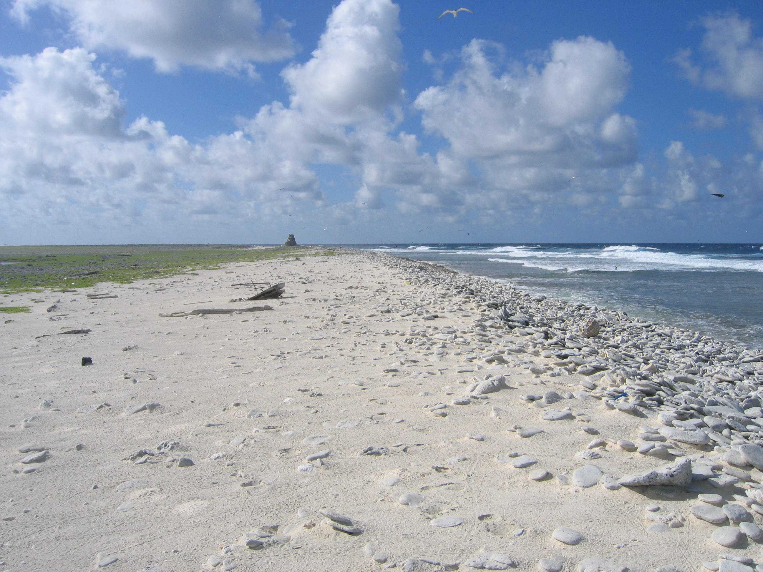 Beach of Birnie Island, Phoenix Islands, Kiribati